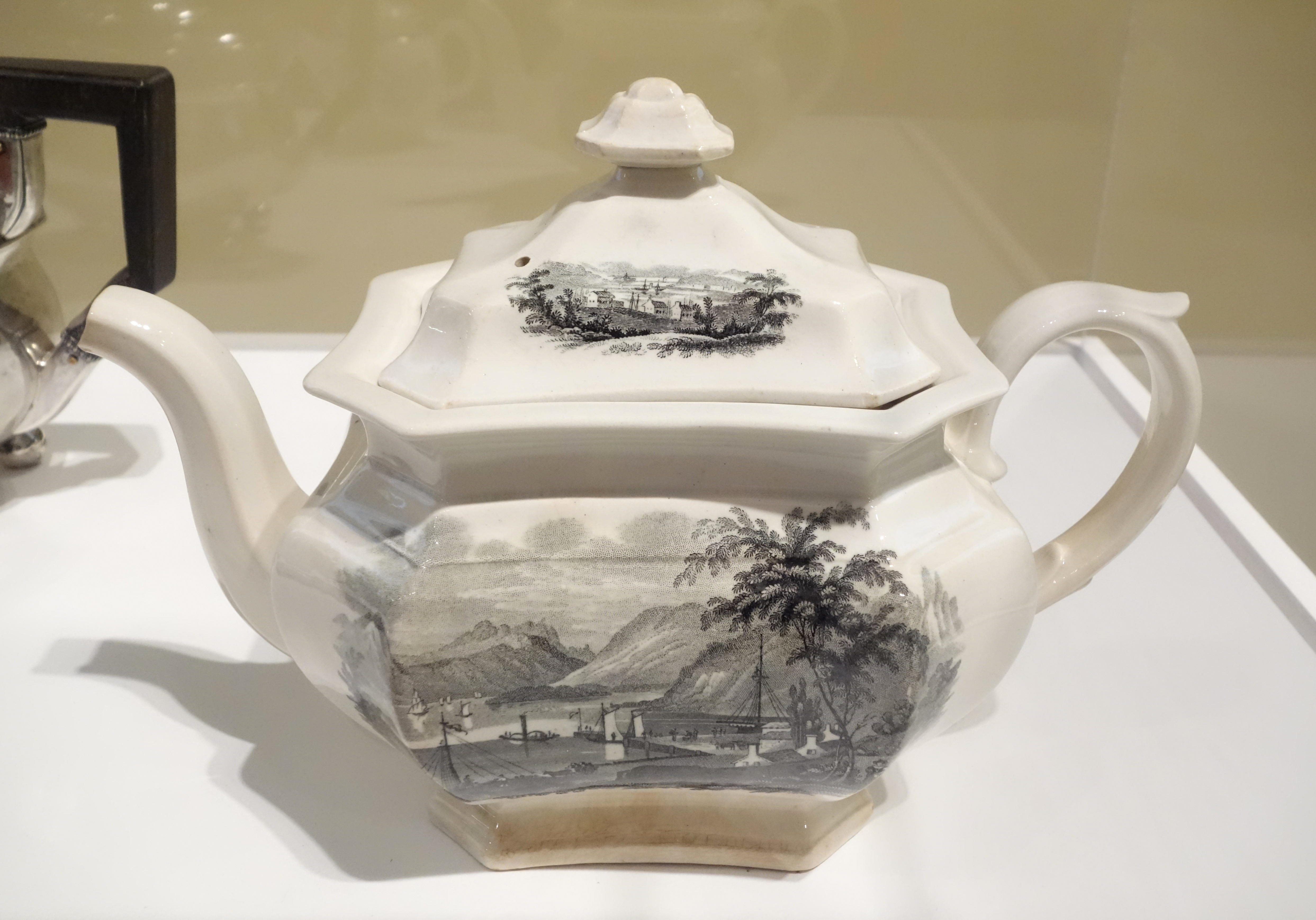 Exhibit in the Brooklyn Museum - Brooklyn, New York, USA. This artwork is in the public domain because the artist died more than 70 years ago.